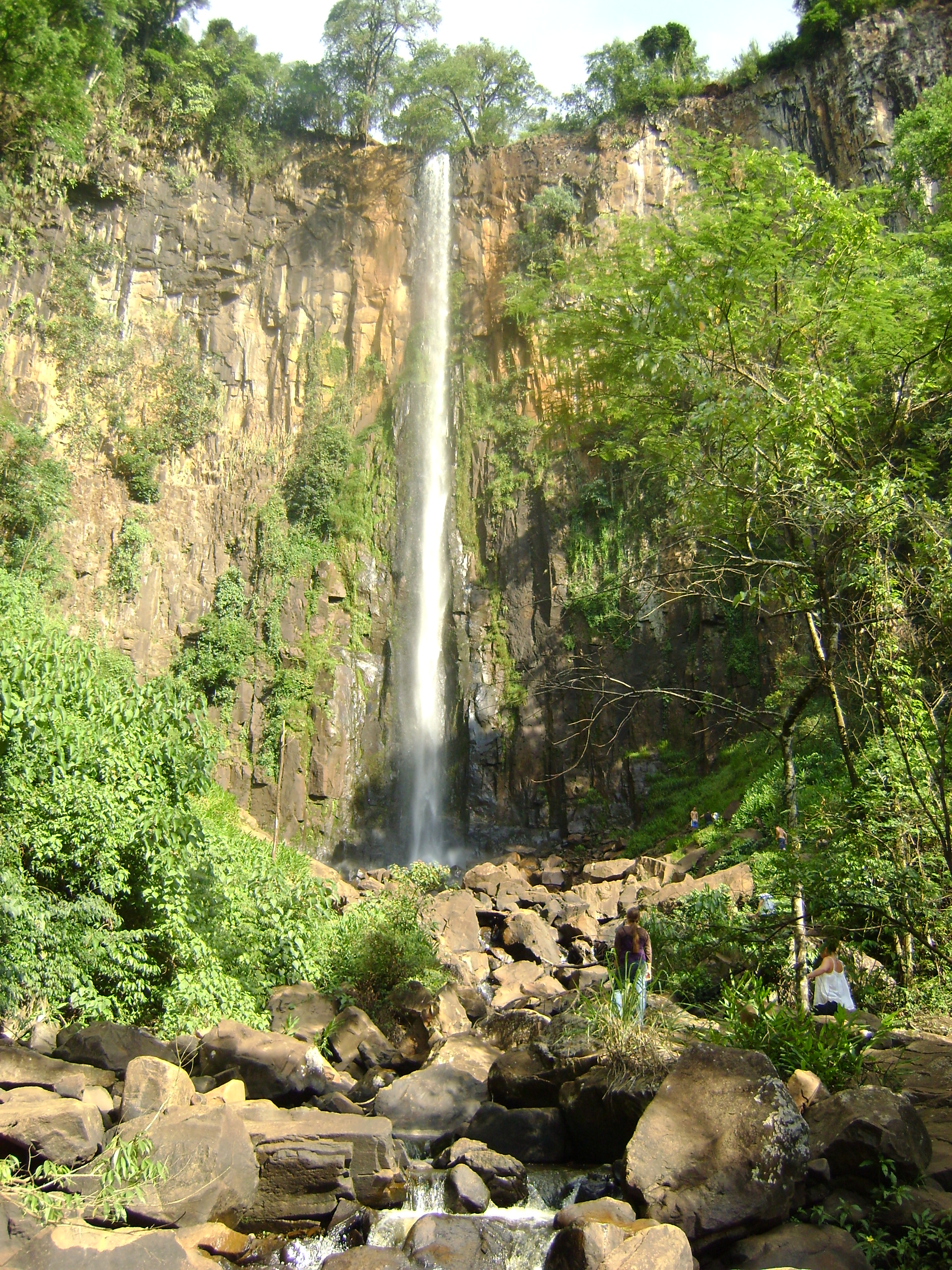 waterfall of Itambé, Cássia dos Coqueiros, SP, Brazil